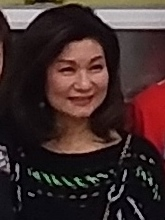 Virginia Lok